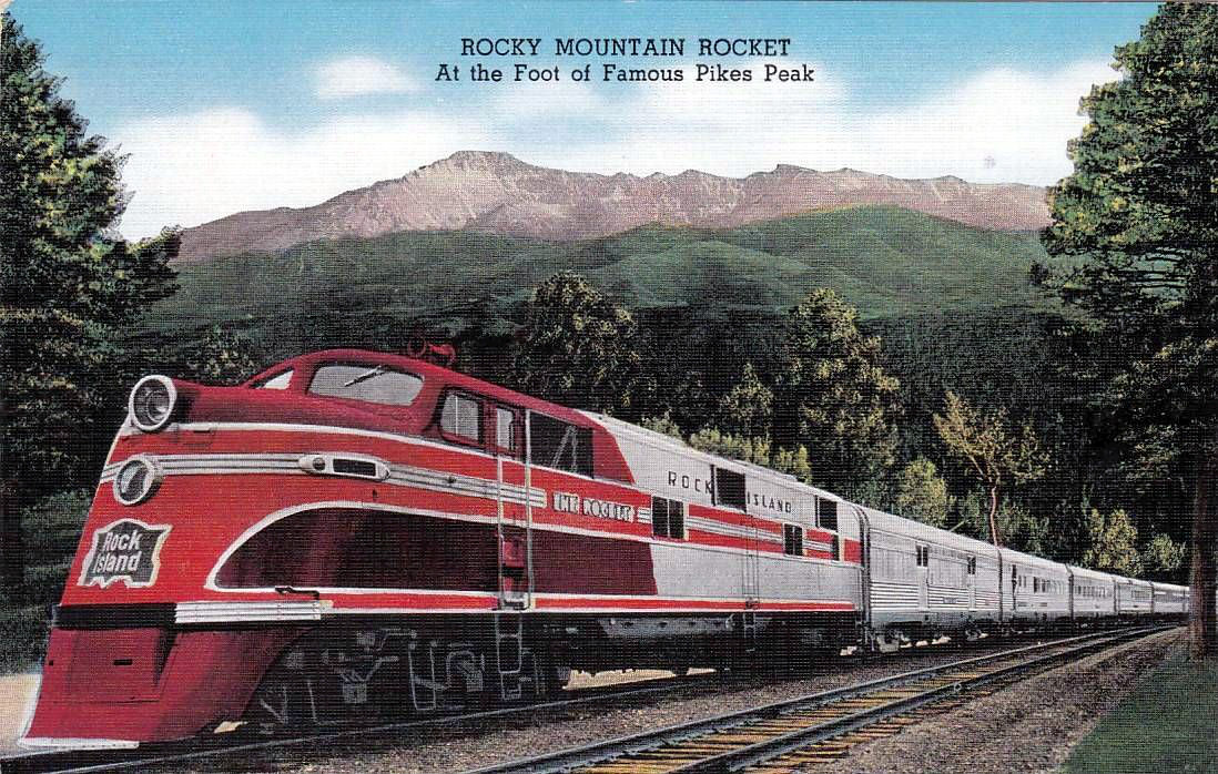 Postcard photo of the train Rocky Mountain Rocket.